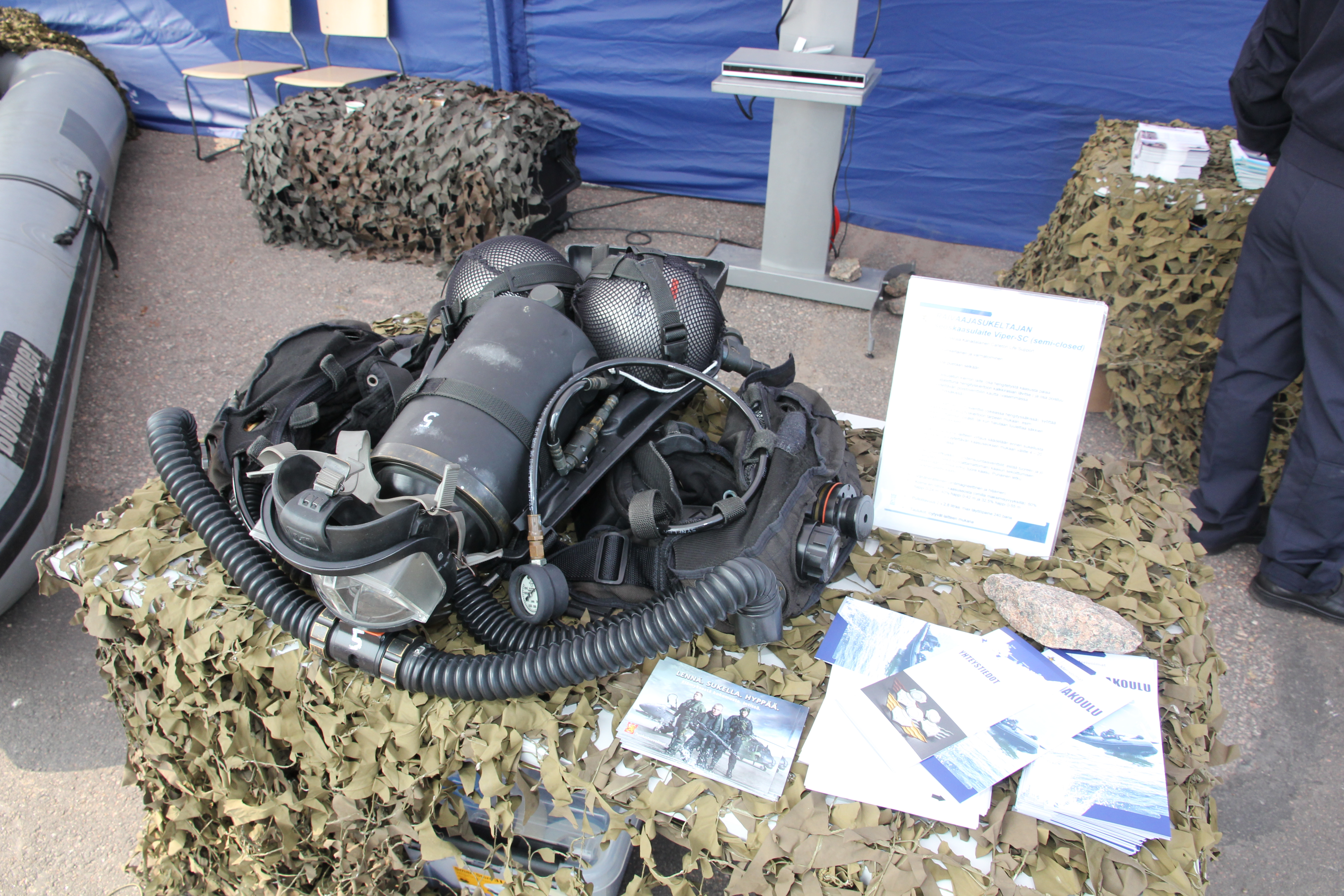 Viper SC semi-closed circuit rebreather used by Finnish Navy mine countermeasures divers on display during the Finnish Navy 2013 anniversary.